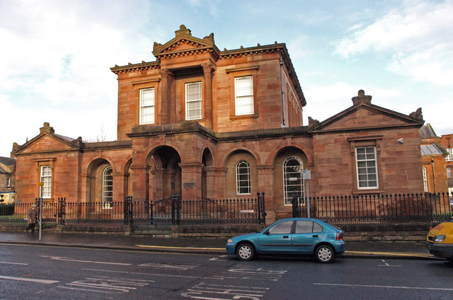 Old Courthouse, Kilmarnock Now the Procurator Fiscals Office on St. Marnock Street.